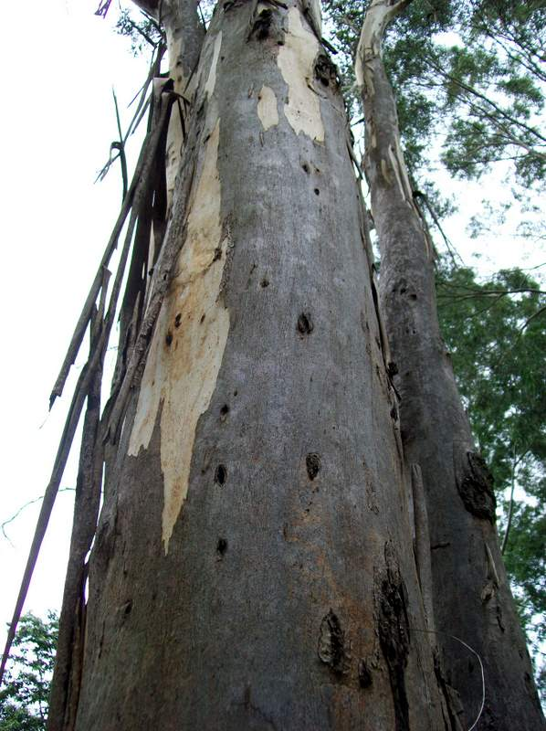 Eucalyptus amplifolia bark, at West Pennant Hills, Australia